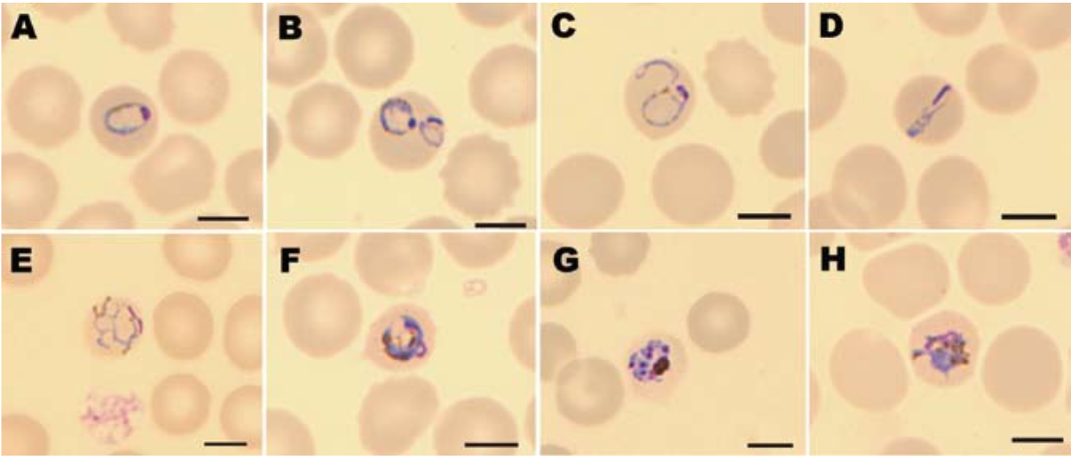 Giemsa-stained thin blood smears of human erythrocytes infected with Plasmodium knowlesi. A-F are trophozoites. G is a schizont. H is a gametocyte. Scale bar is 5 micrometers.